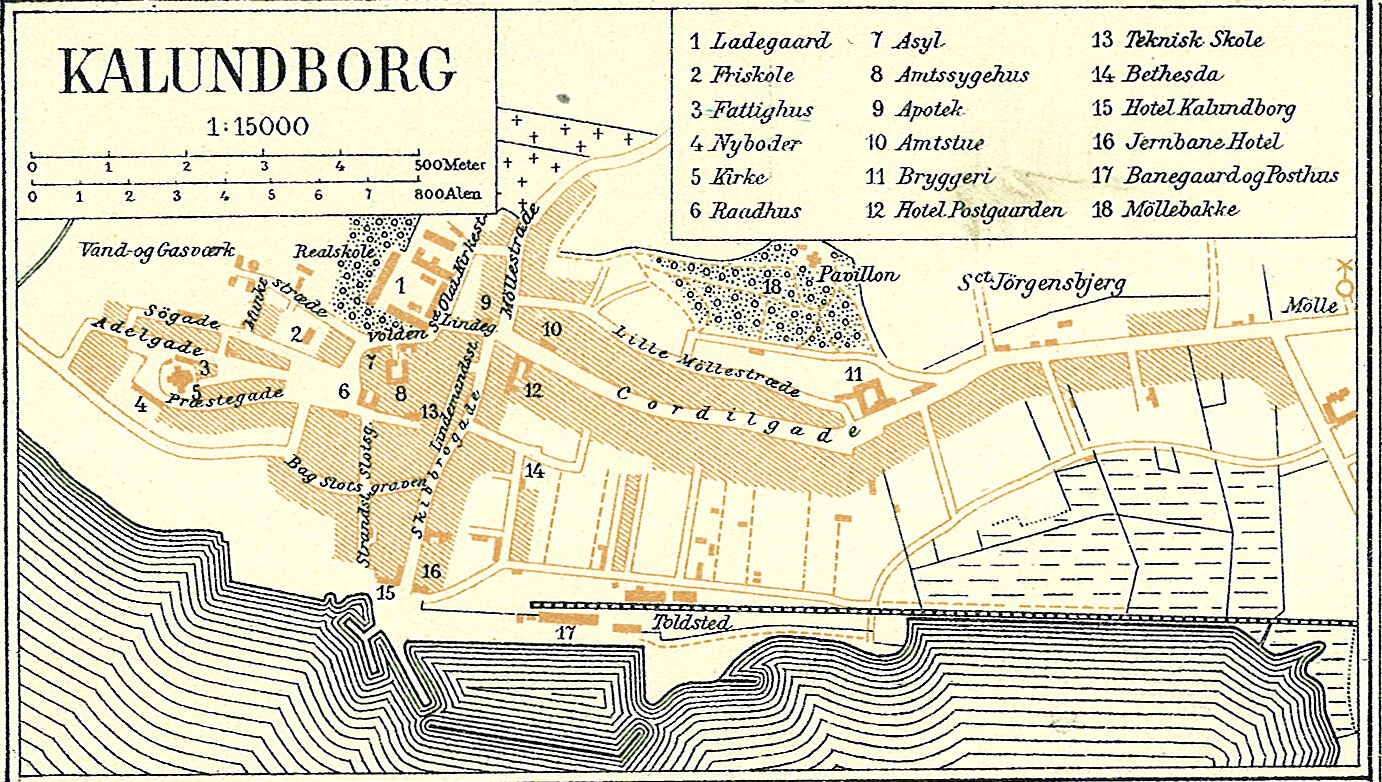 Map of Kalundborg in Holbæk County in Denmark